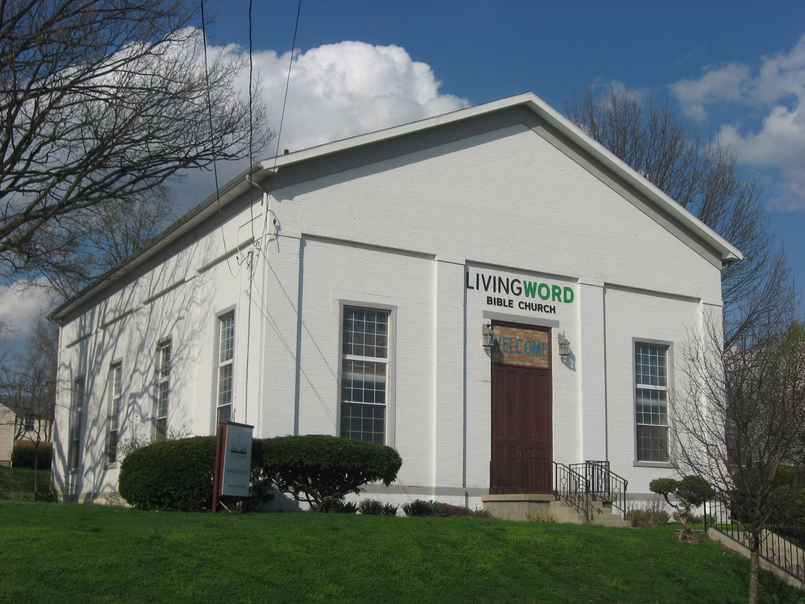 Front and western side of the West Baptist Church (now Living Word Bible Church), located at 500 W. Mulberry Street in Lebanon, Ohio, United States. Built in 1860, it is listed on the National Register of Historic Places.